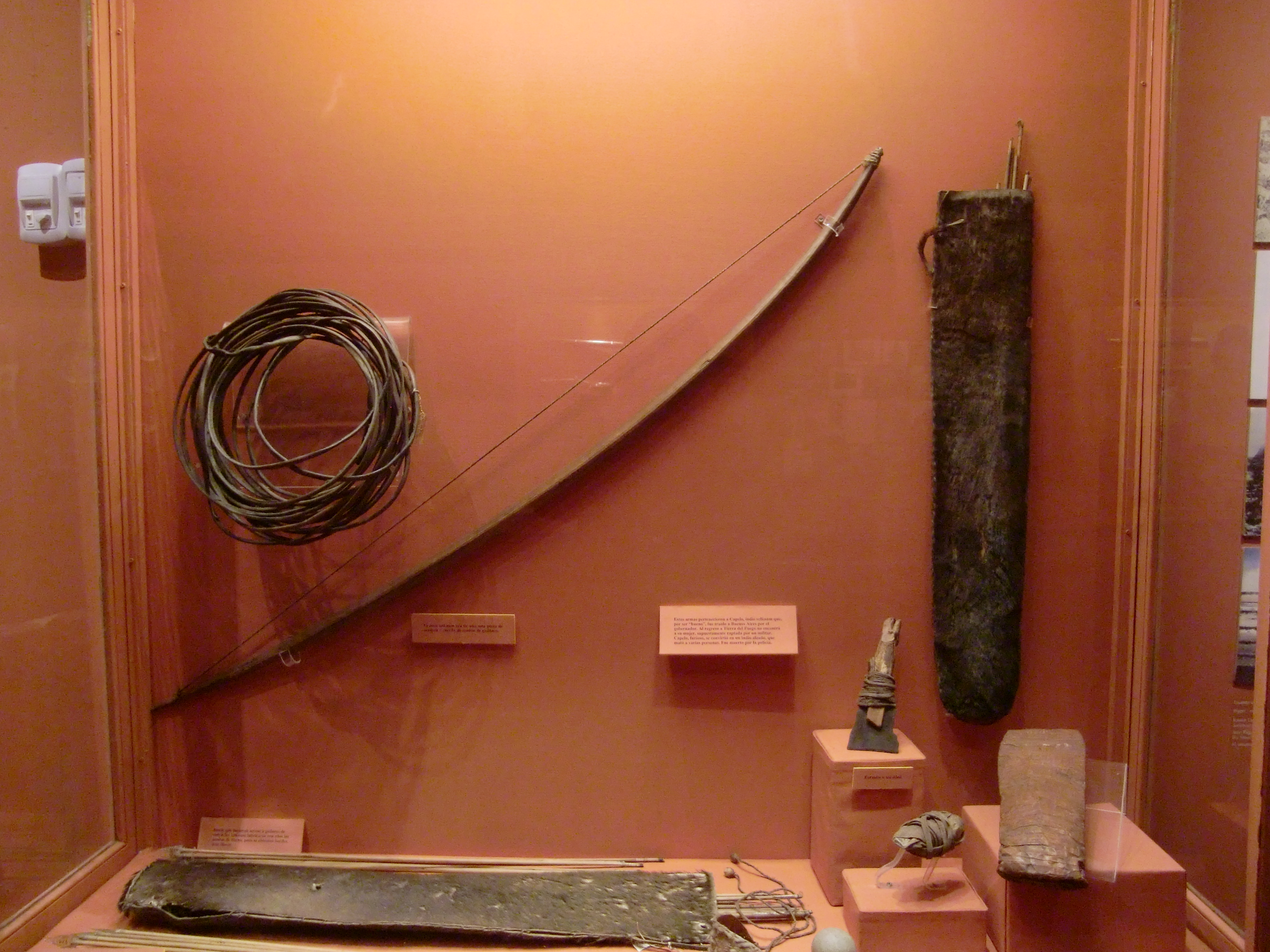 Selknam tribal bow, stone tipped arrows and other cultural artifacts, with thanks to ES:Museo Etnogáfico Juan B. Ambrosetti for permission to take photos of their collection